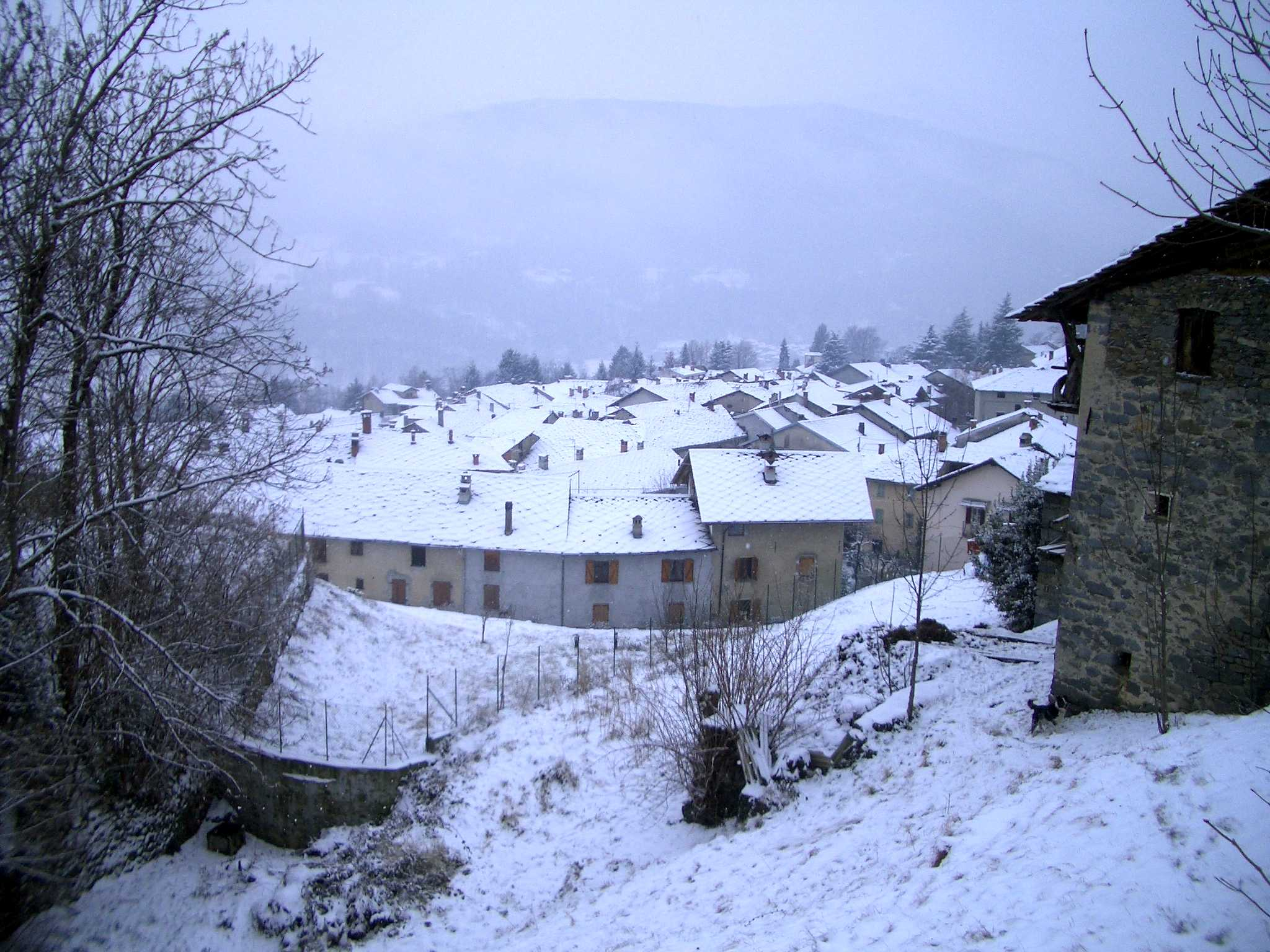 Vico Canavese: landscape in the wintertime, Vico Canavese, Torino, Italy